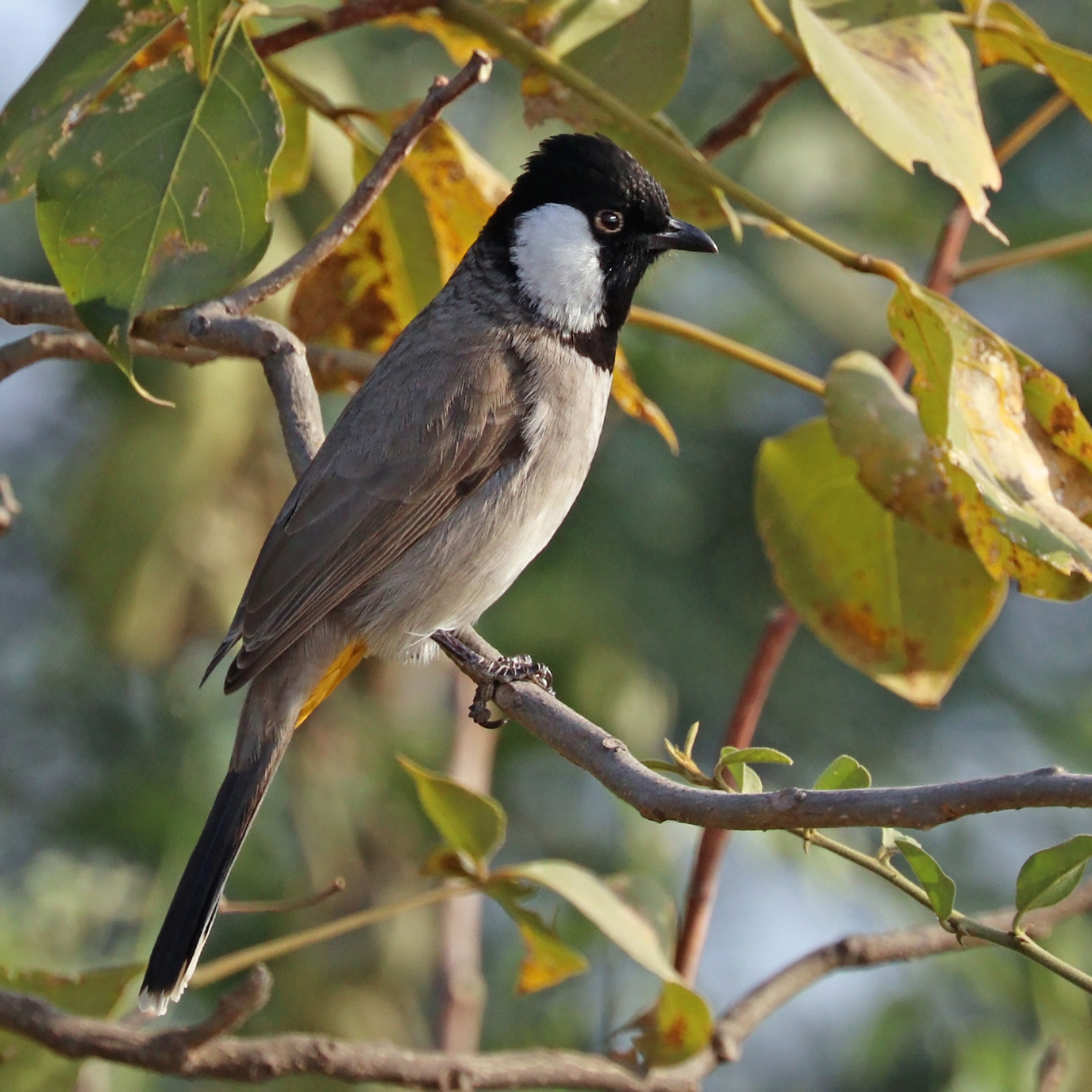 White-eared bulbul (Pycnonotus leucotis leucotis), Keoladeo NP, Bharatpur, India